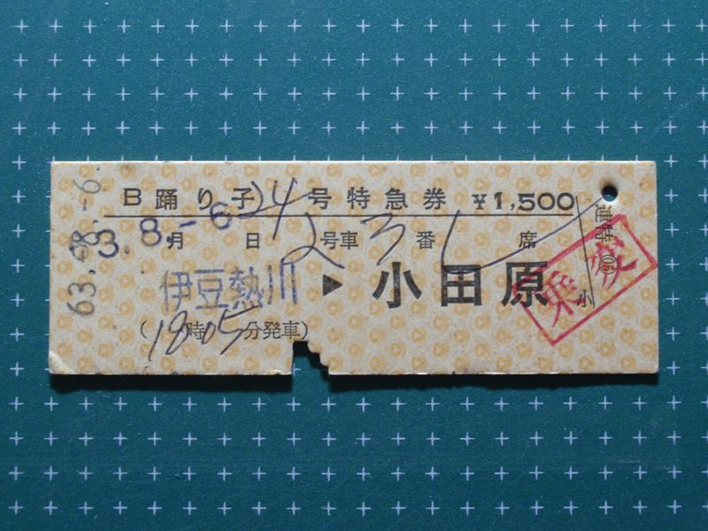 Limited express ticket of Odoriko No.24